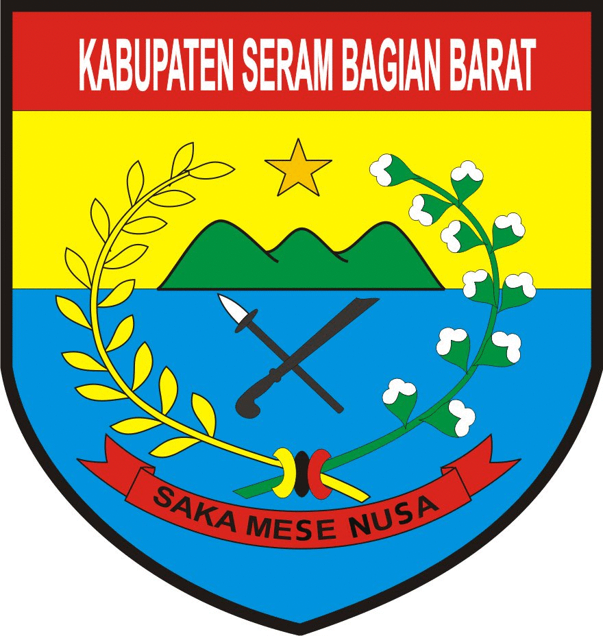 Coat of arms of Western Seram Regency